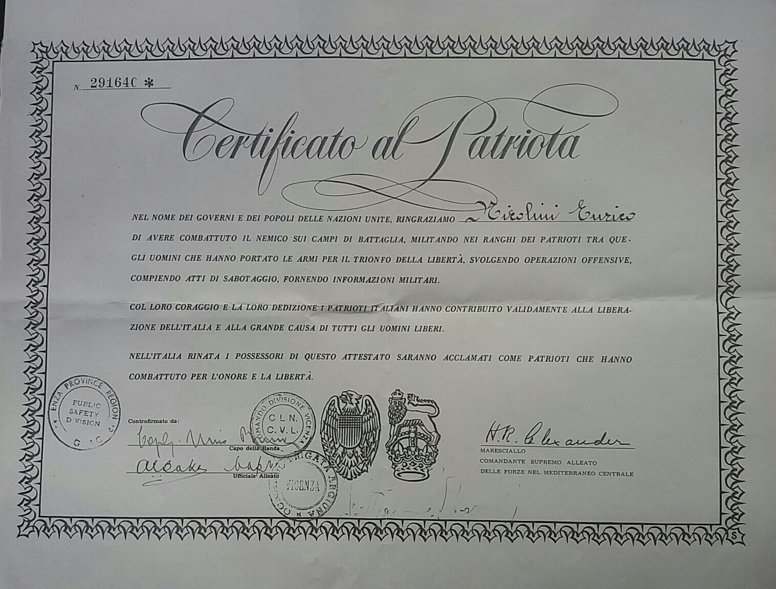 "Certificate of Patriot", given by H.R.Alexander, Field-Marshal, Supreme Allied Commander, Mediterranean Theatre, to the partisans who had taken part in the Italian Resistance Data